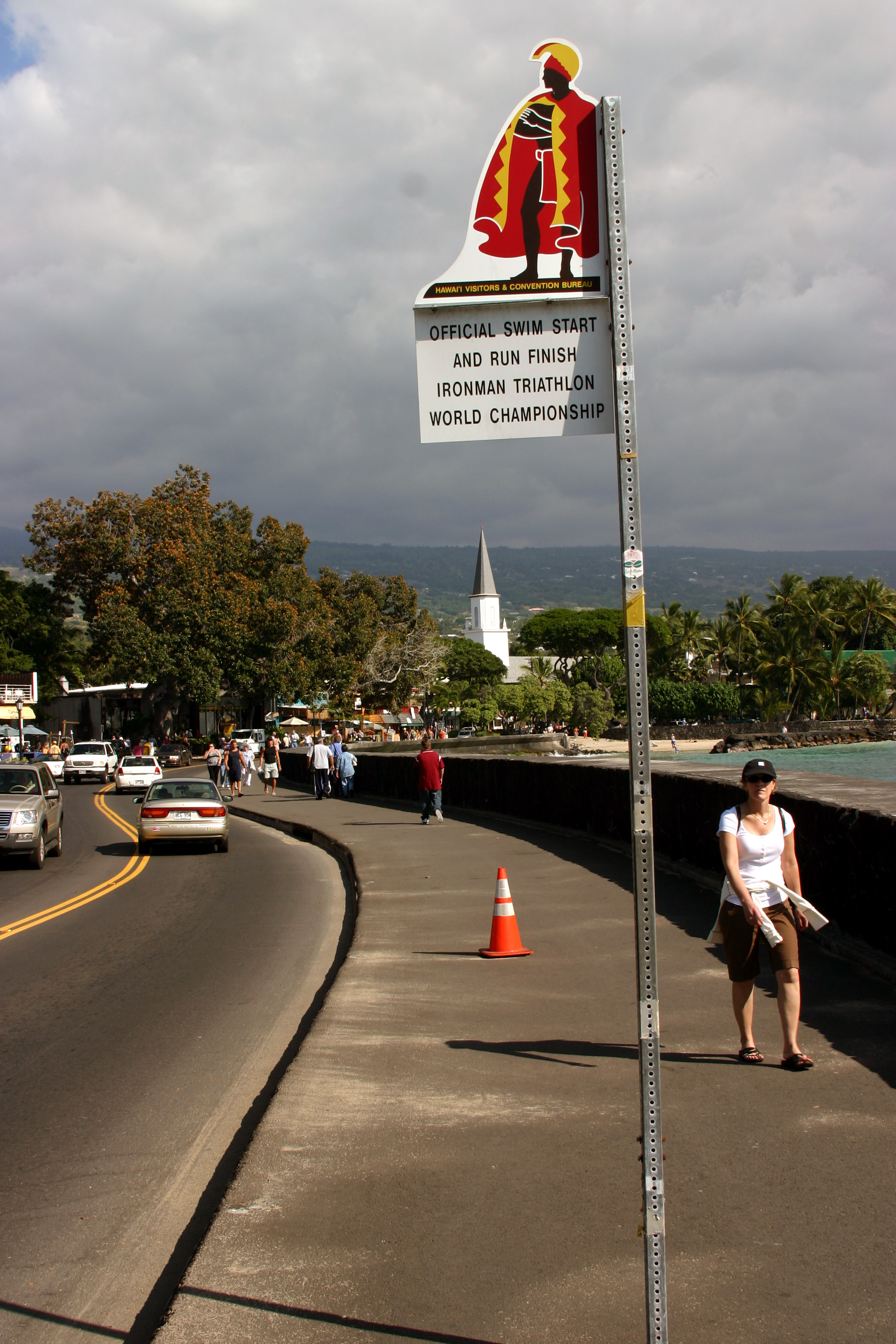 The starting and finishing point of the Ironman Triathlon World Championship, Kona, Hawaii.